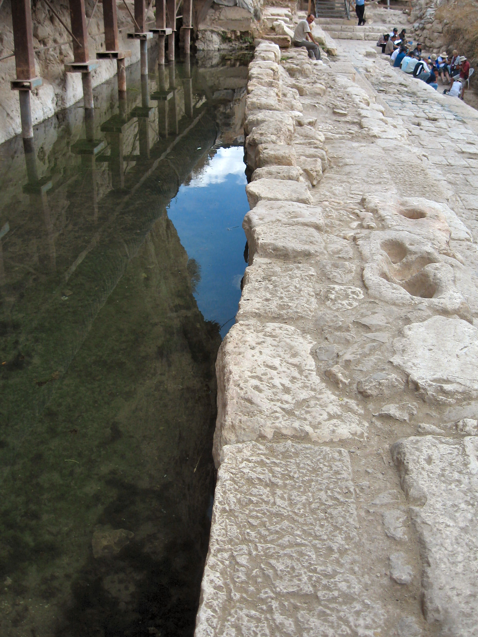 city of david11 shiloach pool